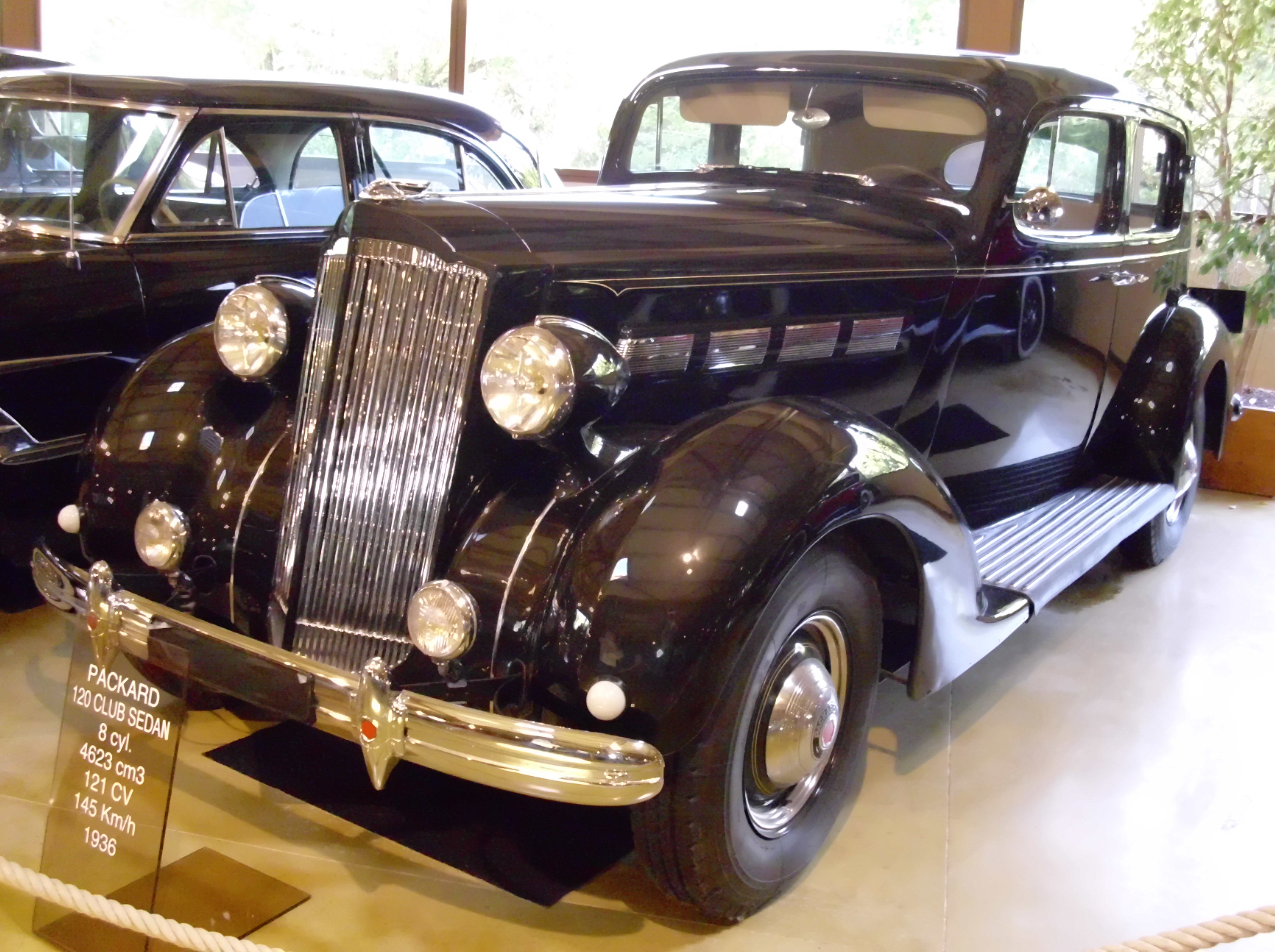 Packard One-Twenty Club Sedan Model 120-B Style 996 1936